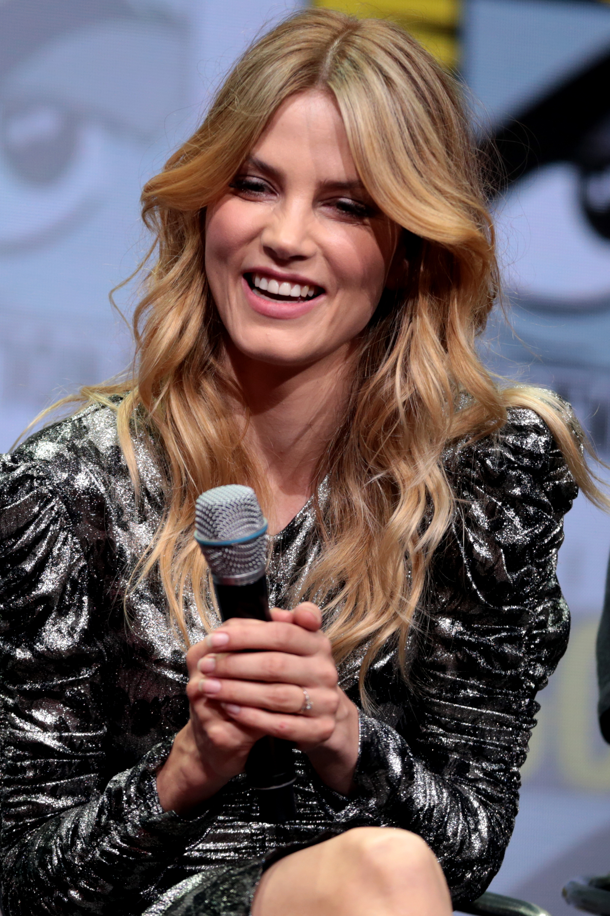 Sylvia Hoeks speaking at the 2017 San Diego Comic-Con International in San Diego, California.